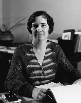 Isabelle Story, editor and first National Park Service Information Officer, pictured in her office in the old Department of the interior Building, Washington, D.C., February 1, 1933. Ms. Story came to the National Park Service in 1916. In 1917, Horace M. Albright called on her to be his secretary. She collaborated with Albright on the NPS Annual Reports for 1917, 1918, and 1919. When Albright went to Yellowstone National Park as superintendent in 1919, Ms. Story joined him to complete the 1919 Annual Report as well as the Budget Report for Congress. Ms. Story wrote press releases and articles promoting the national parks and monuments. She was “editor-in-chief” during the National Park Service’s phases of professional development and for a while its only writer. She is credited as one of the first advocates of a national parks magazine. She retired from the National Park Service in 1954. National Park Service photograph by George A. Grant; Negative Number Wa. 274a.